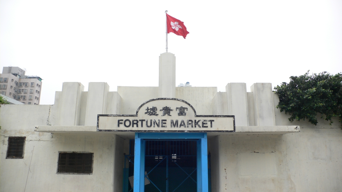 While taking the film "每當變幻時"，Luen Wo Market was added the plate "Fortune Market", but after the film was finished, the plate and the rubbish made by the production were not removed.